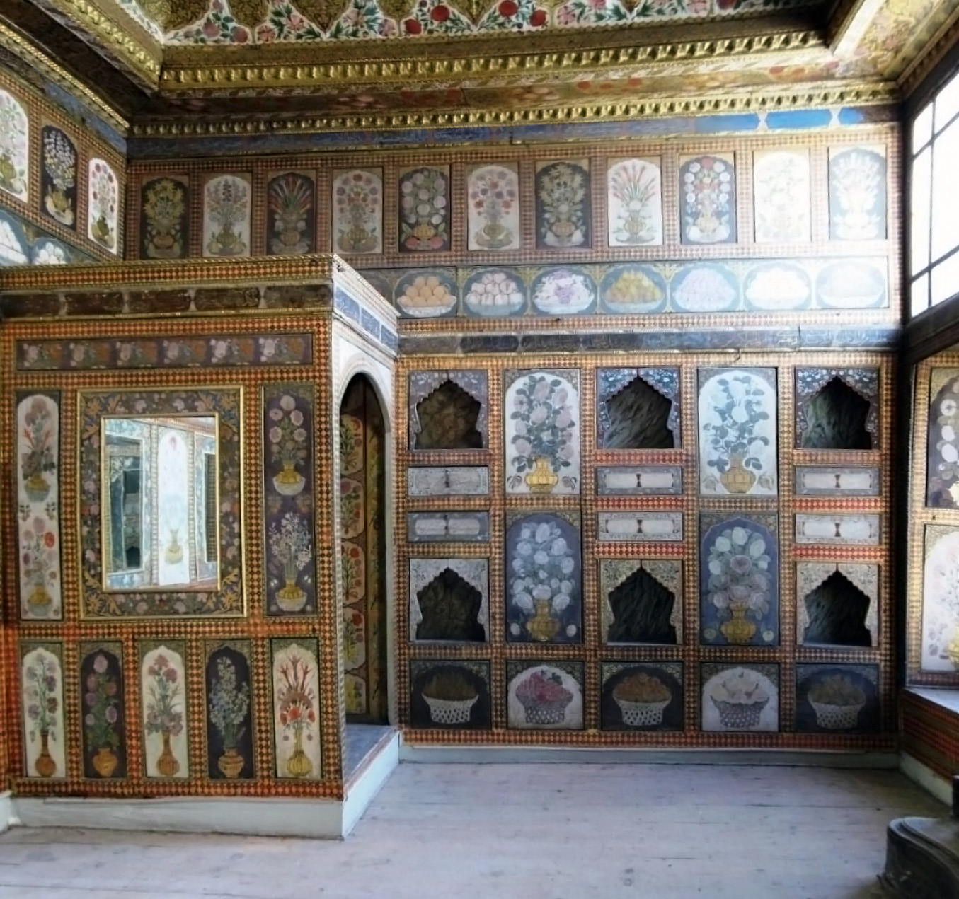 The Fruit Room in the Harem section of Topkapi Palace, next to the apartments of the Queen Mother (Valide Sultan).